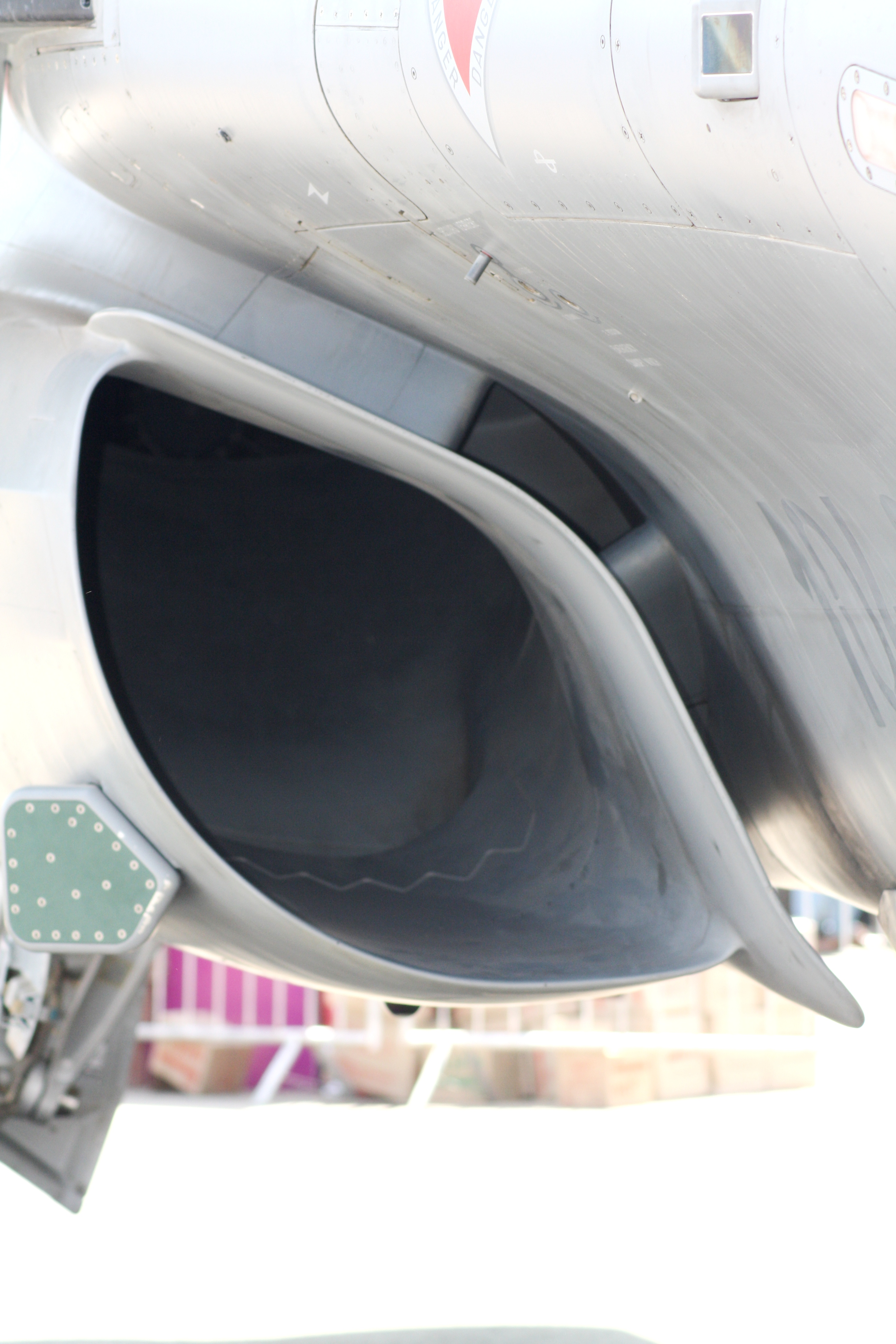 Serrated patterns on Dassault Rafale's air inlet